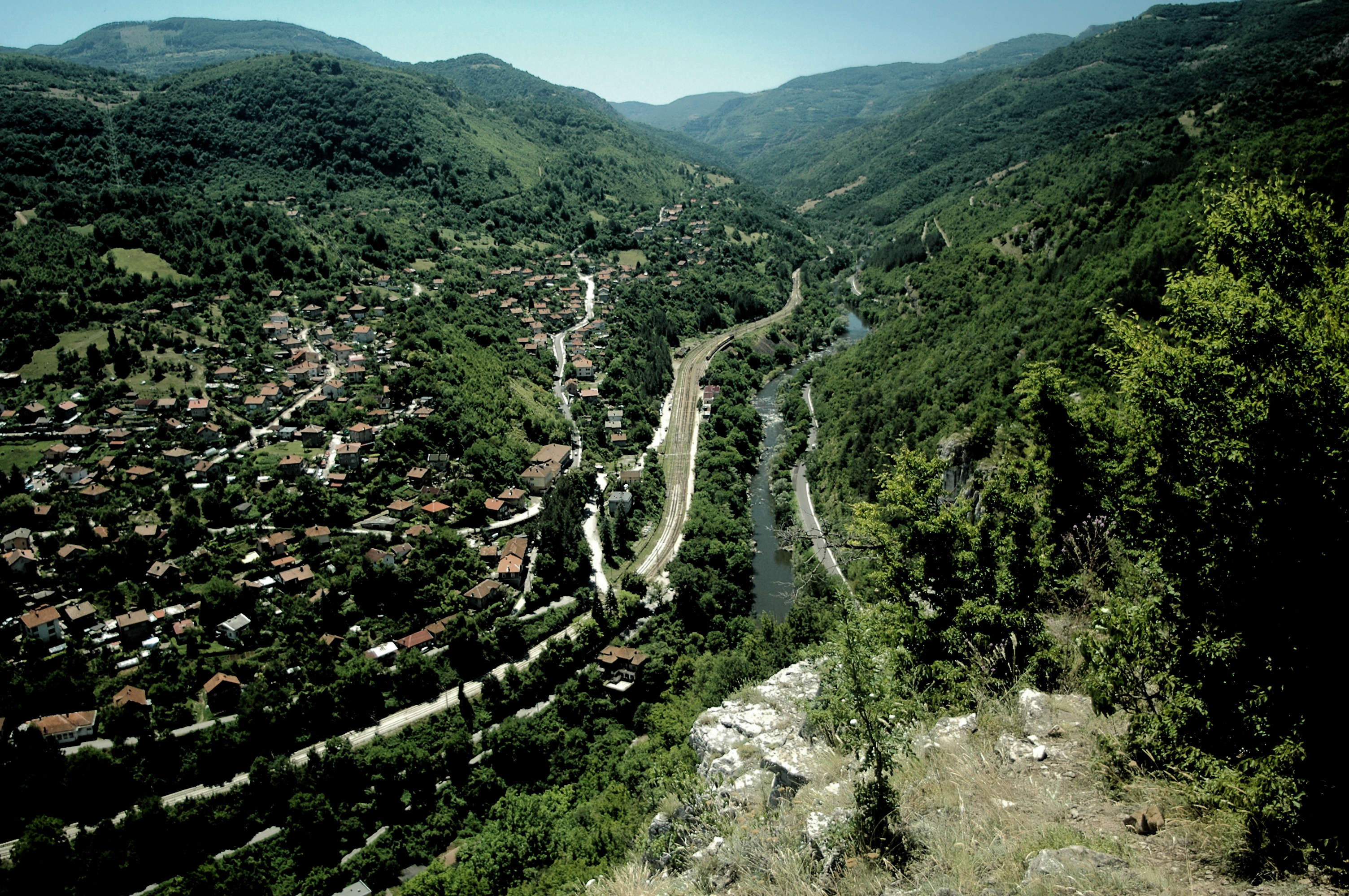 Iskar gorge